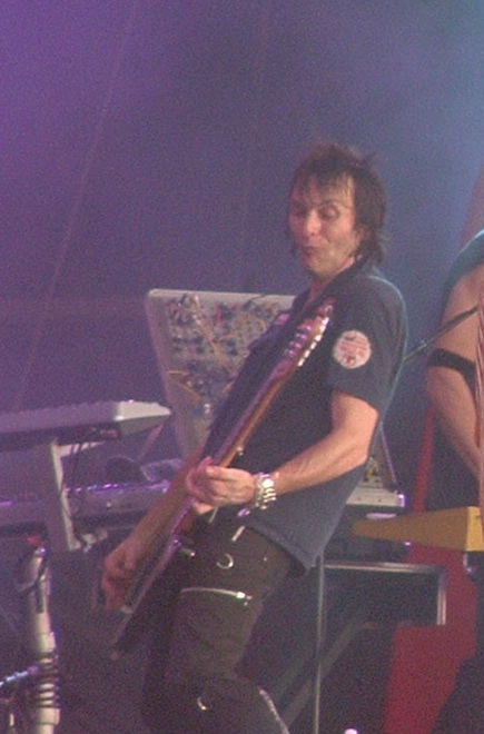 Tommy Stinson on GUNS N' ROSES